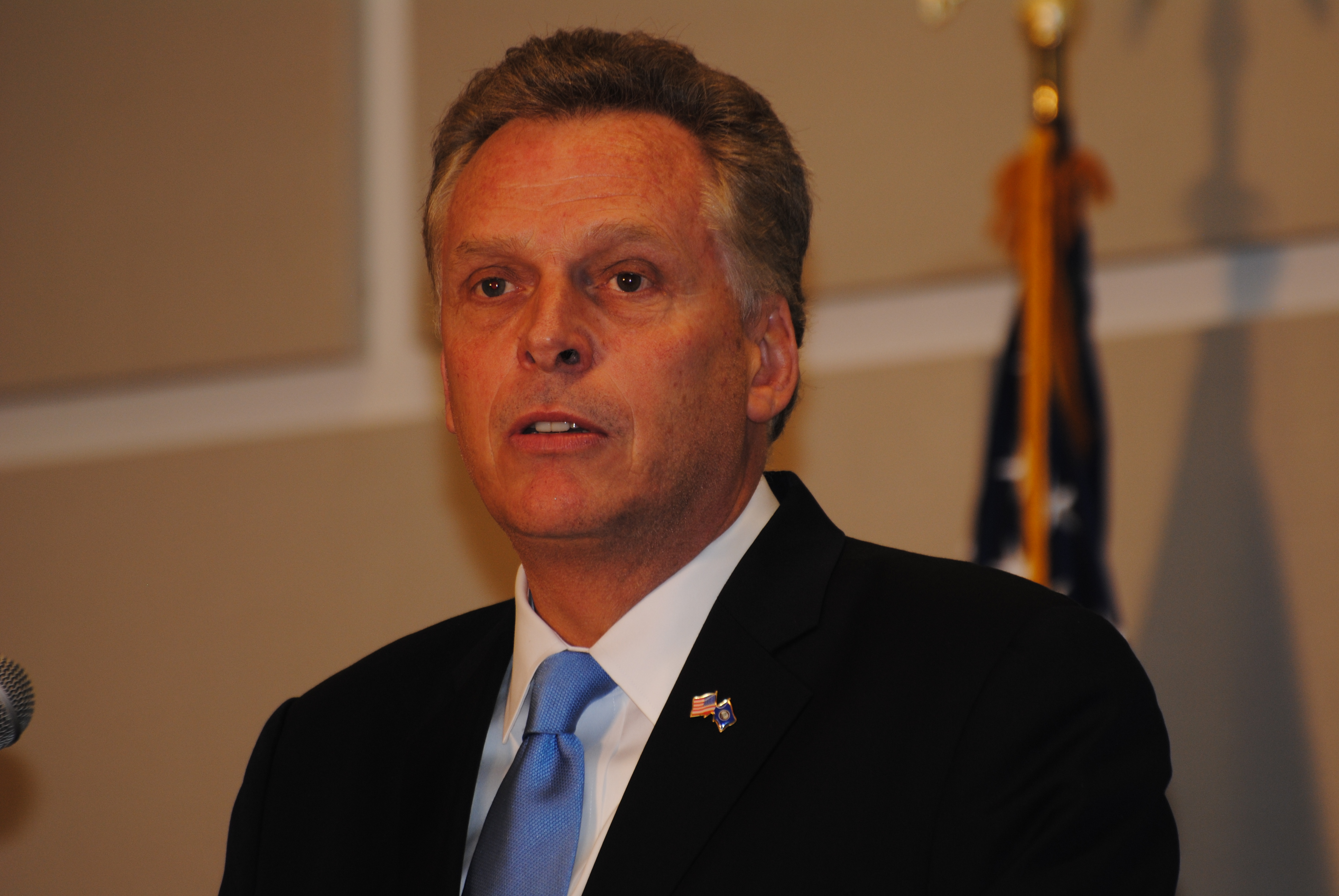 Virginia Governor Democrats Terry McAuliffe 095